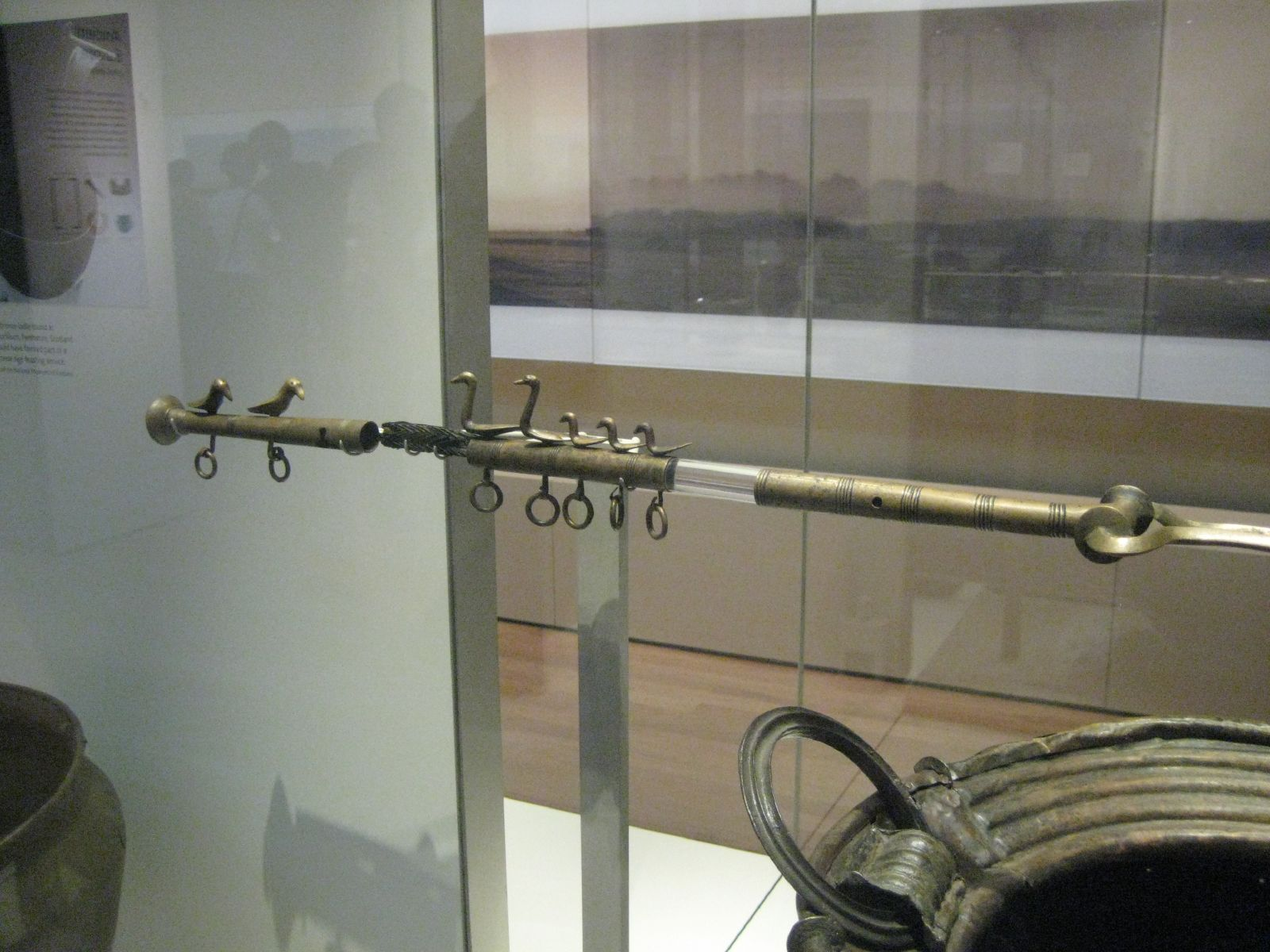 Bronze, with wooden oak shafts which are now lost. Late Bronze Age, about 1090 - 900 BC Dunaverney, Co. Antrim, Ireland